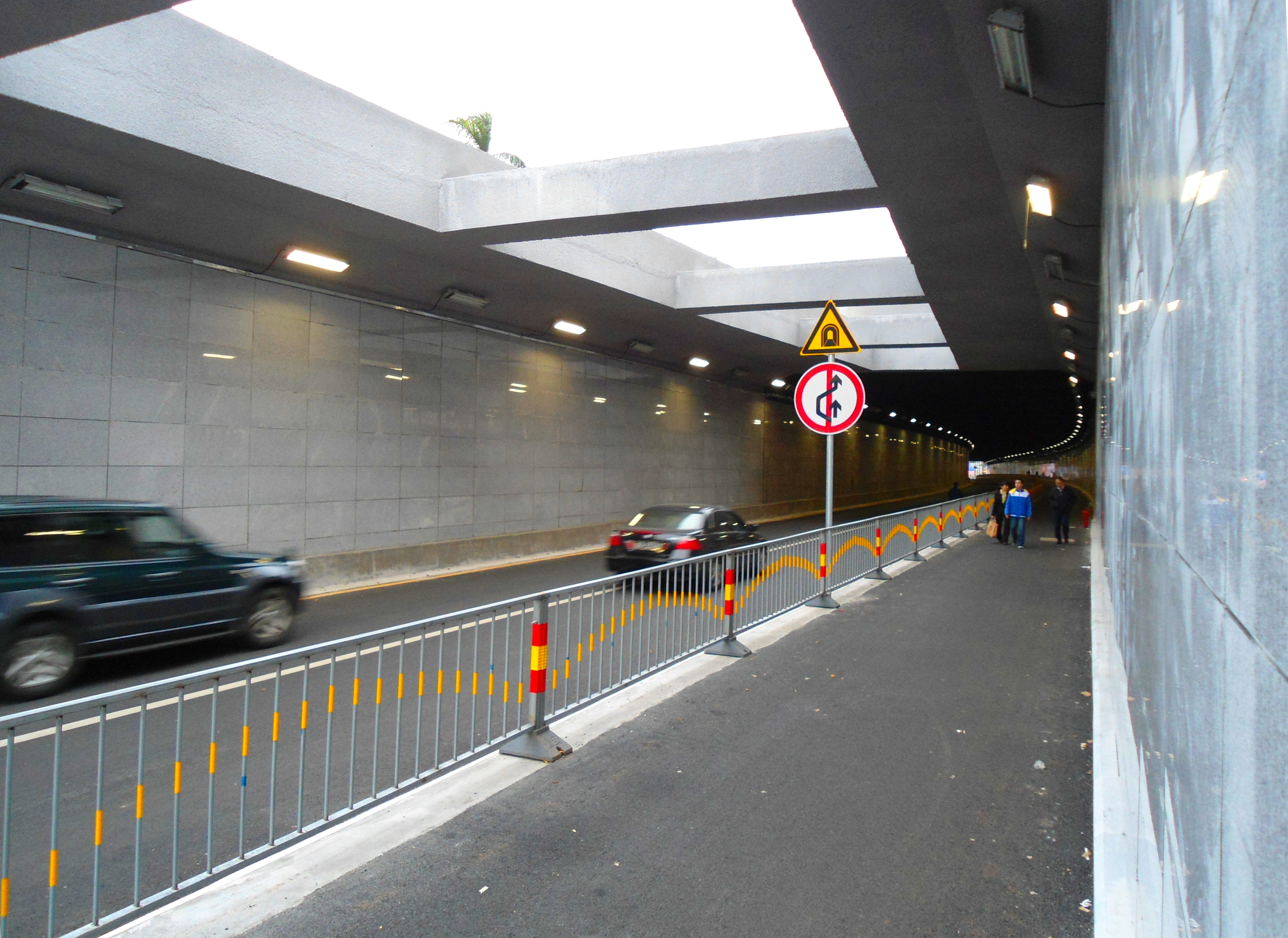 Qiaozhonglu Tunnel interior facing north, in Haikou, Hainan Province, People's Republic of China.